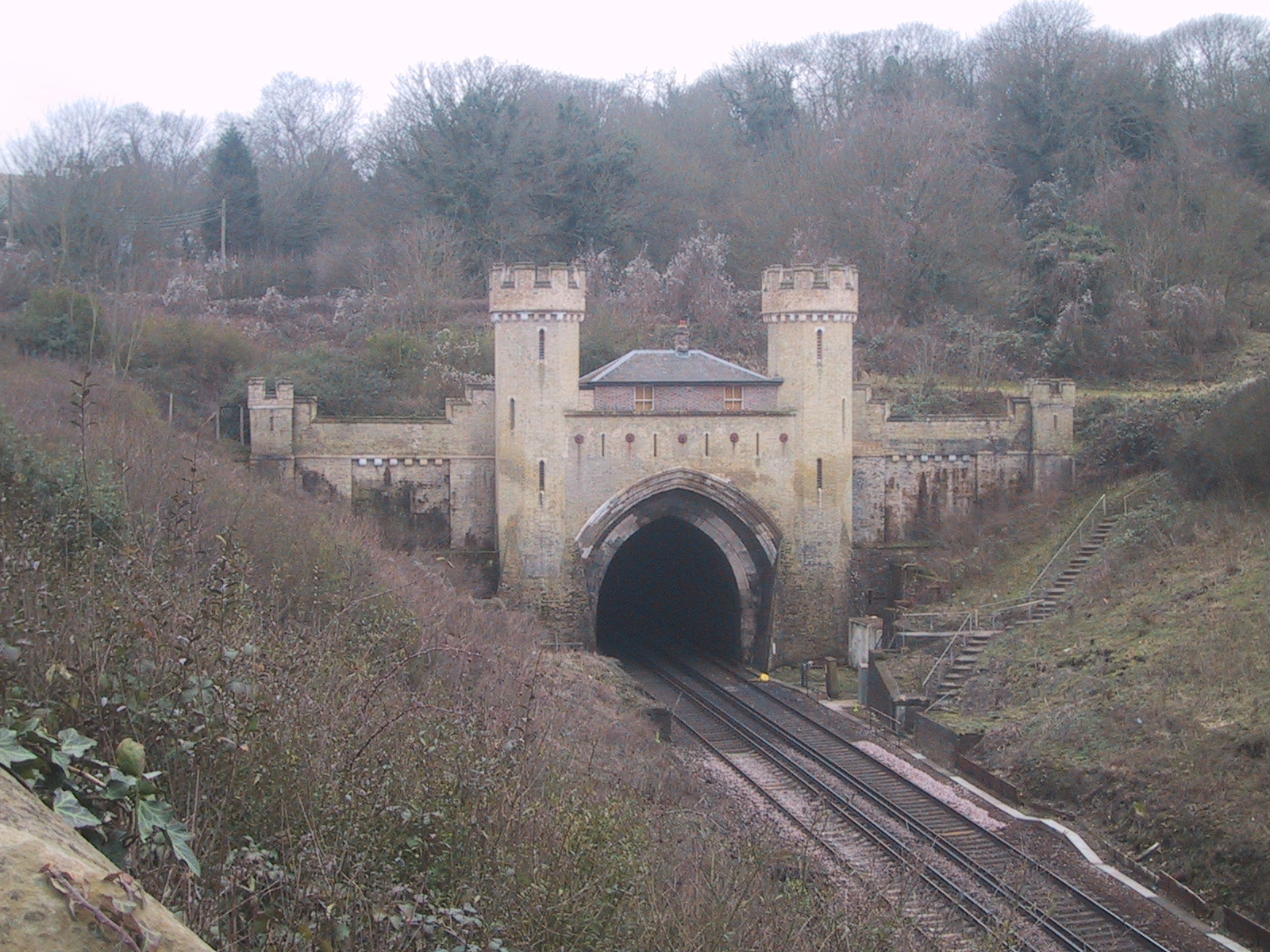 Clayton Tunnel. Taken in January 2006 and now in the public domain.